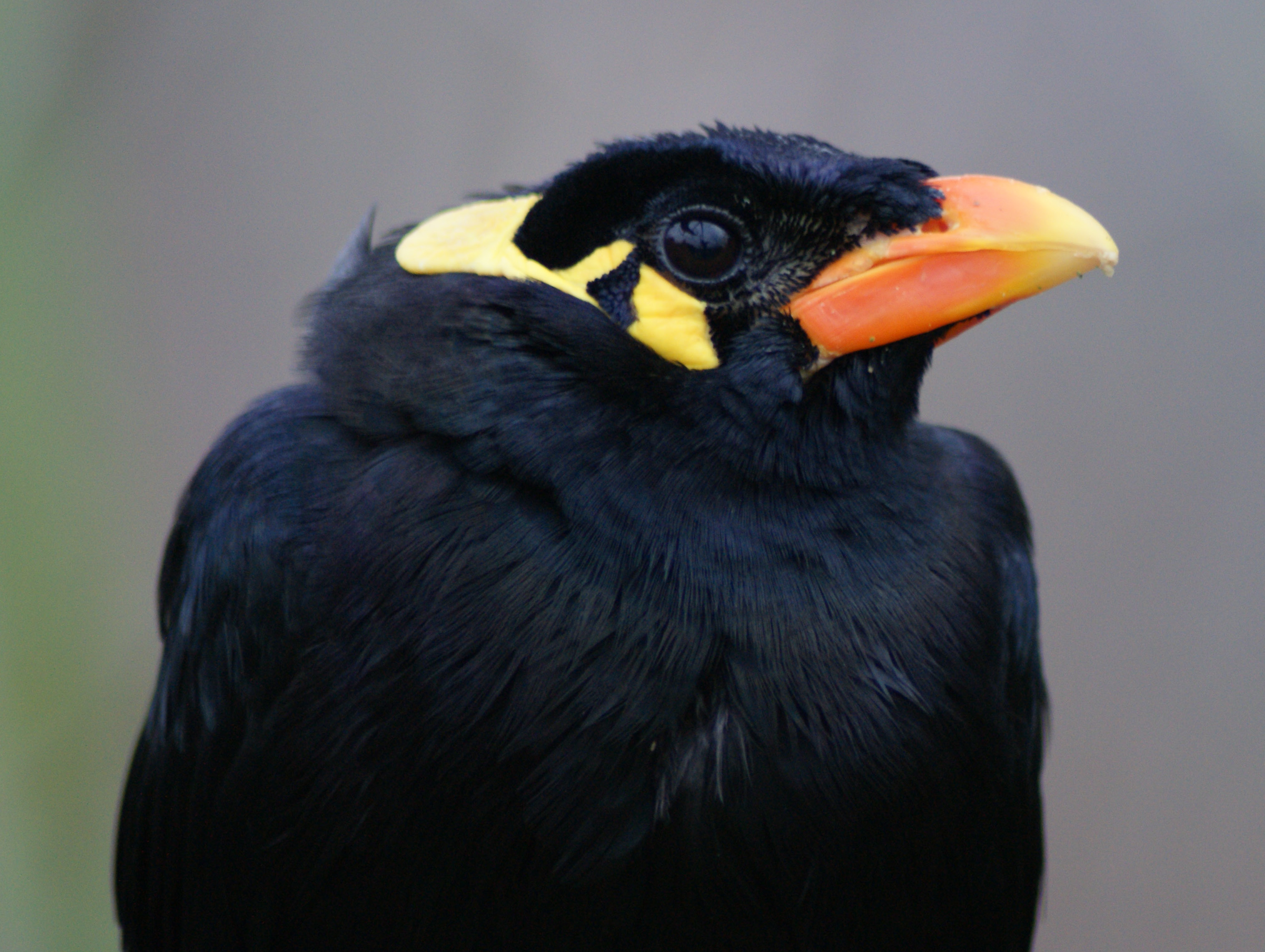 A Hill Myna (Gracula religiosa intermedia) in Thrigby Hall